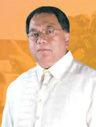 Annual Report of the Department of Public Works and Highways for C.Y. 2007.